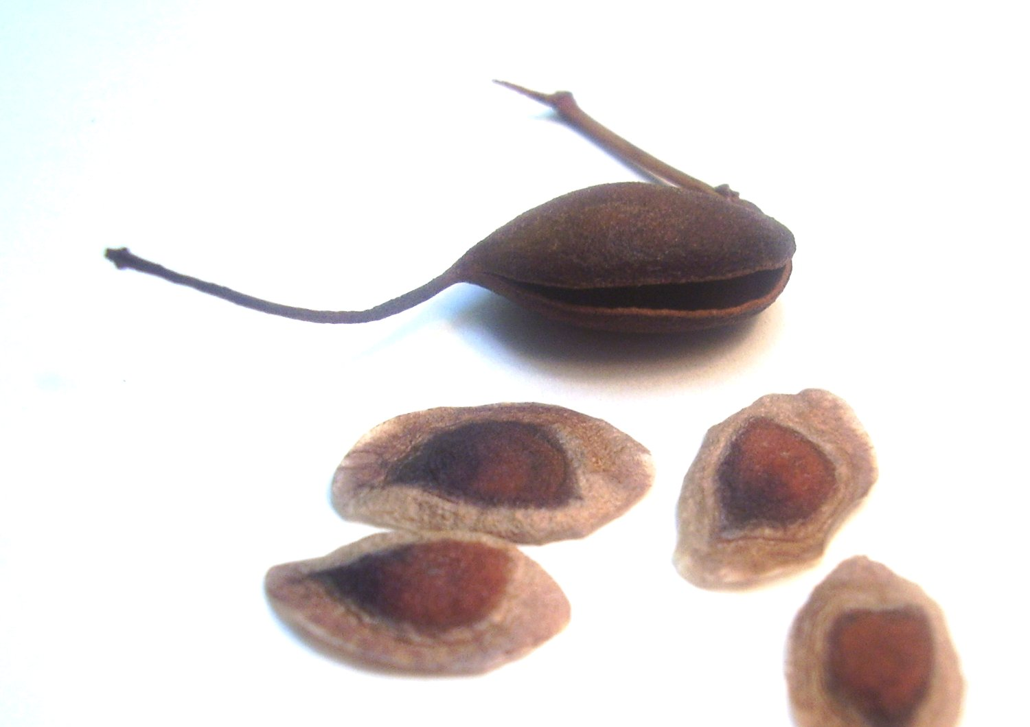 A seed pod and seeds of Grevillea robusta